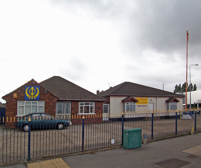 Guru Nanak Sikh Temple. The Guro Nanak Sikh Temple is situated at the junction of Normanby Road and Old Cosby.